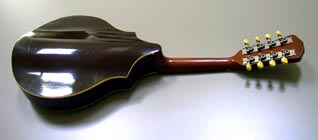 Back view of Vega cylinder-back mandolin (photo by Bob DeVellis)